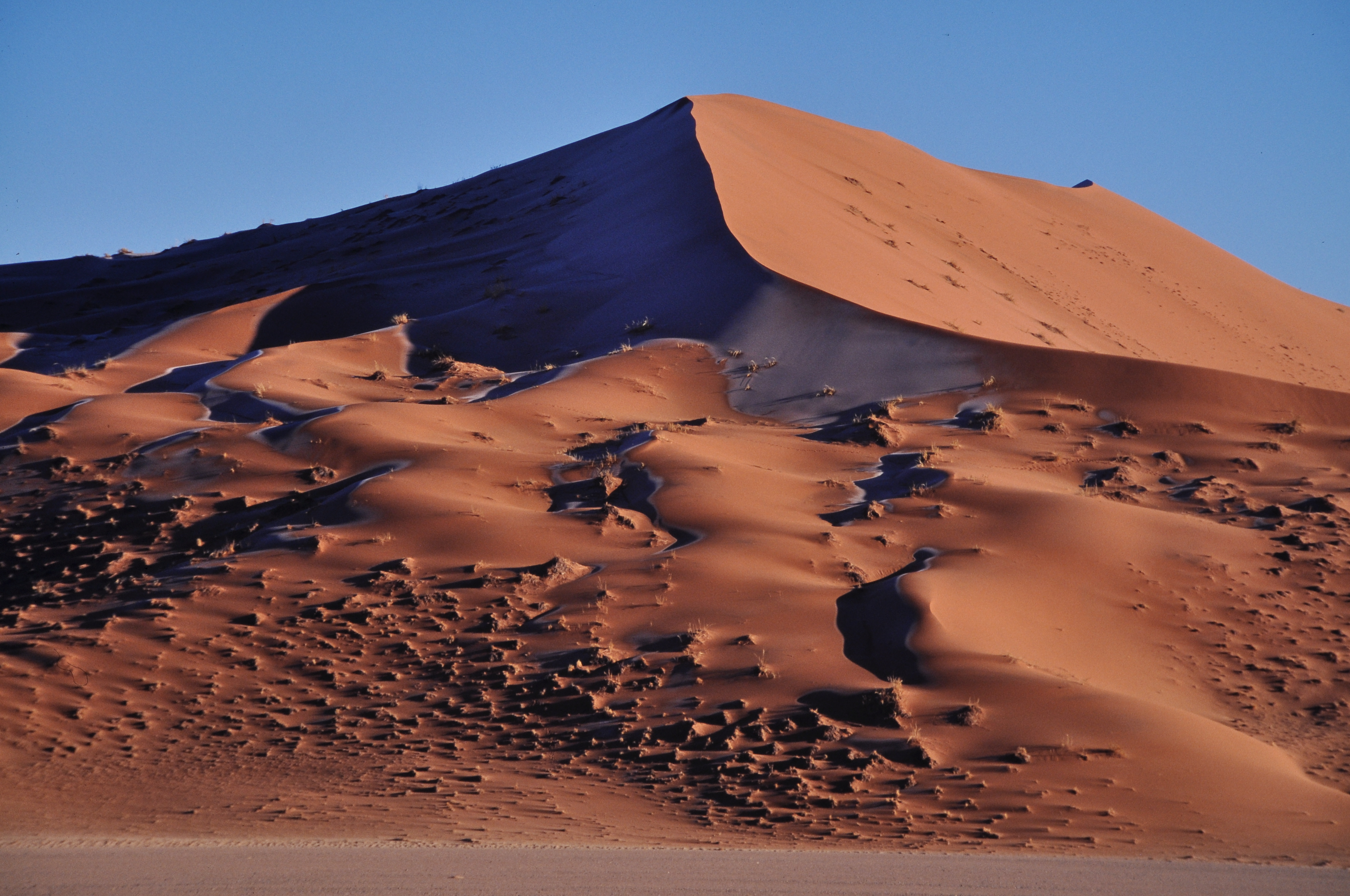 Dune in Sossusvlei, Namibia